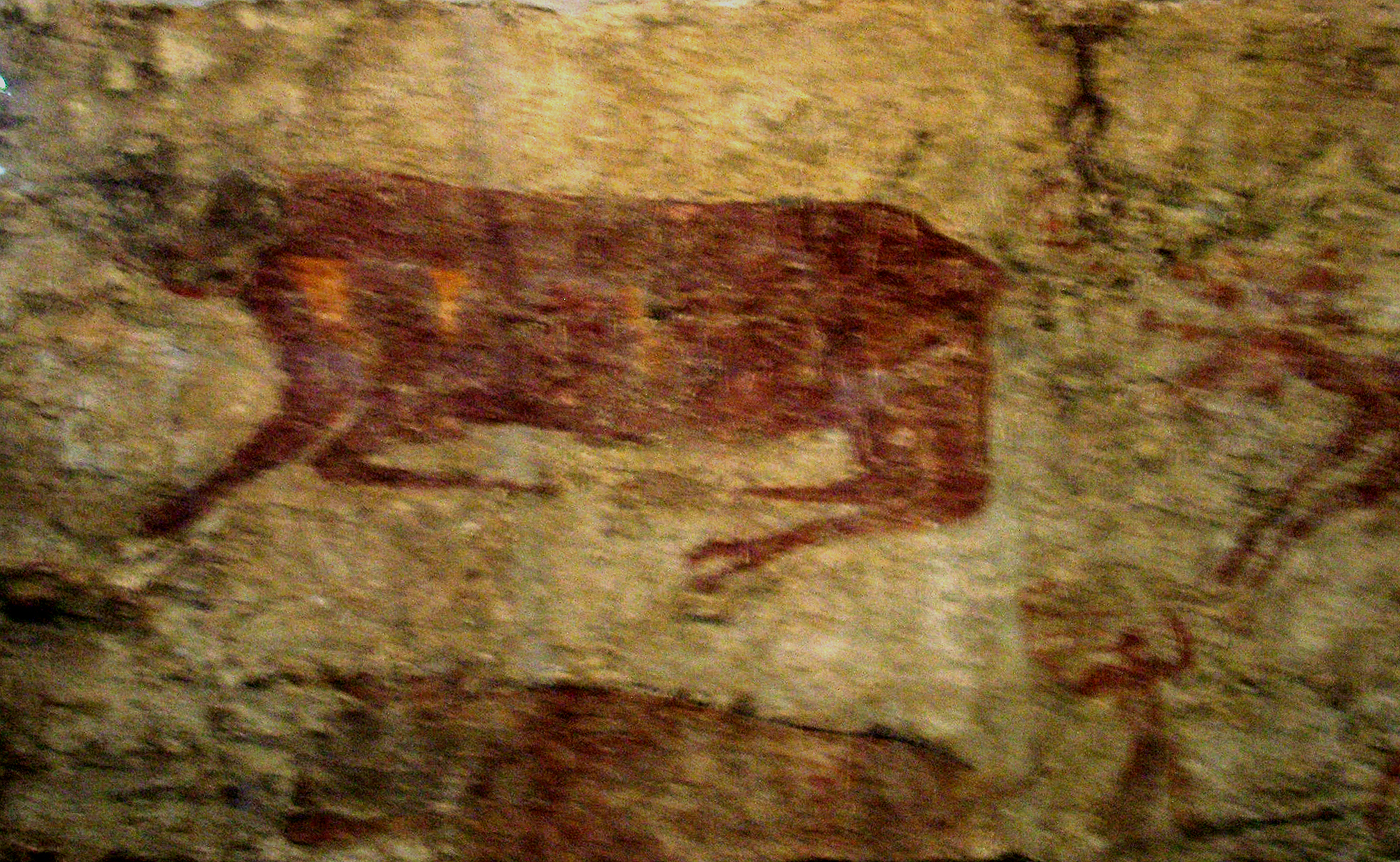 Wall painting of a bull, deer and man from Çatalhöyük; 6th millennium BC; reconstruction in their original positions of the bull's heads and the human relief-figure; Museum of Anatolian Civilizations, Ankara, Turkey